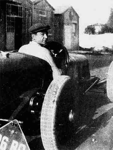 Ettore Maserati in 1920s, probably in a Maserati Tipo 26, so in late 1920s. Source stated: FOTO: ANSA (Agenzia Nazionale Stampa Associata).